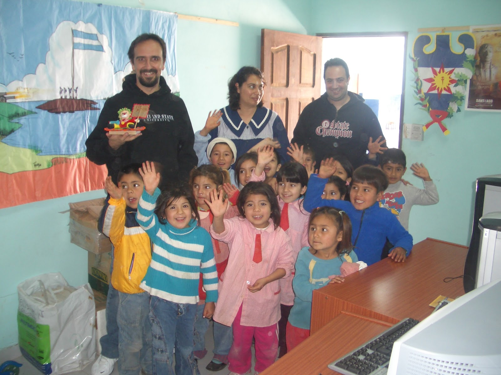 Luis Falcon and students from a public school in Santiago del Estero, Argentina, celebrating the new computer room with GNU/Linux workstations at the school library in 2006